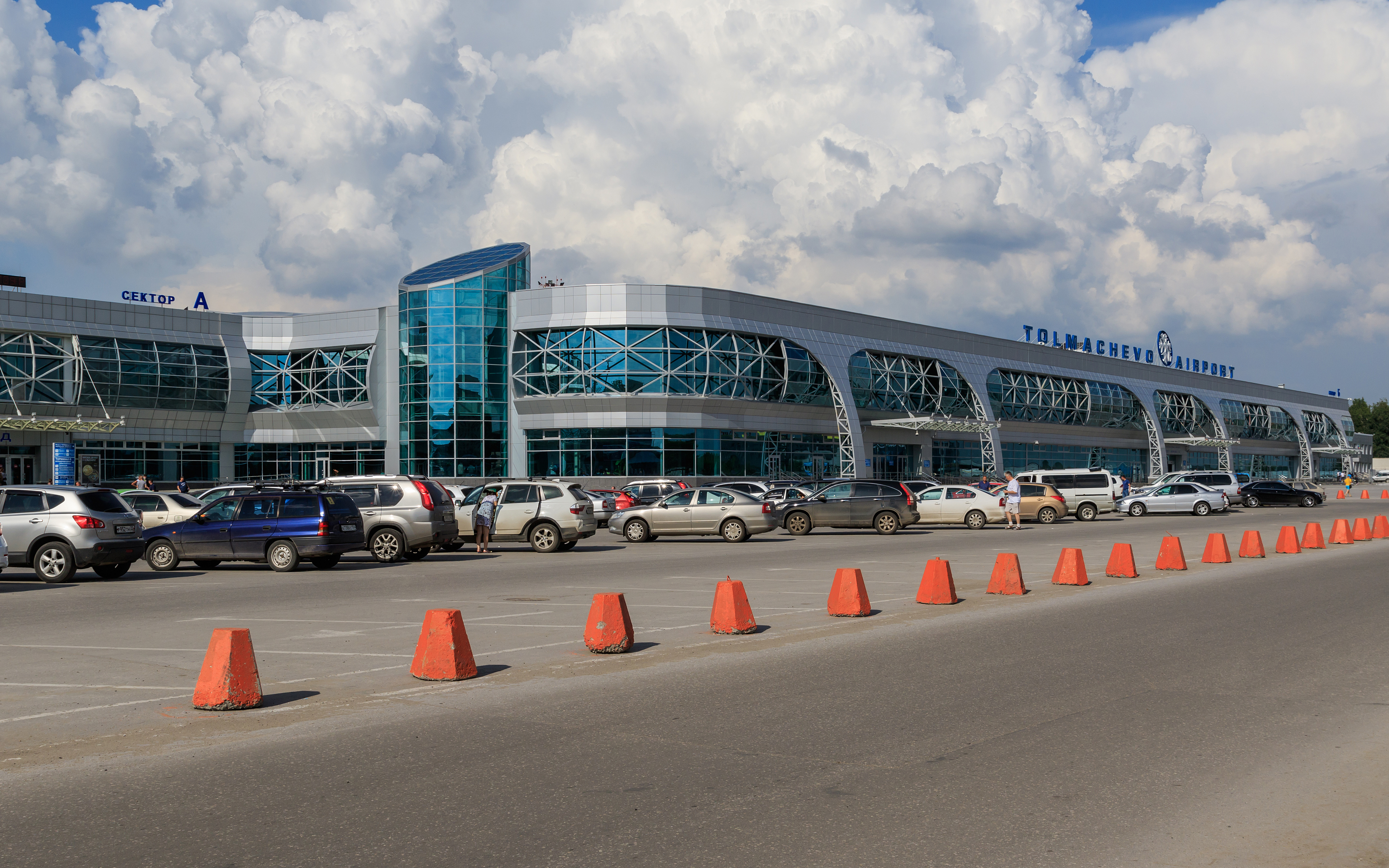 Tolmachevo Airport near Novosibirsk, Russia